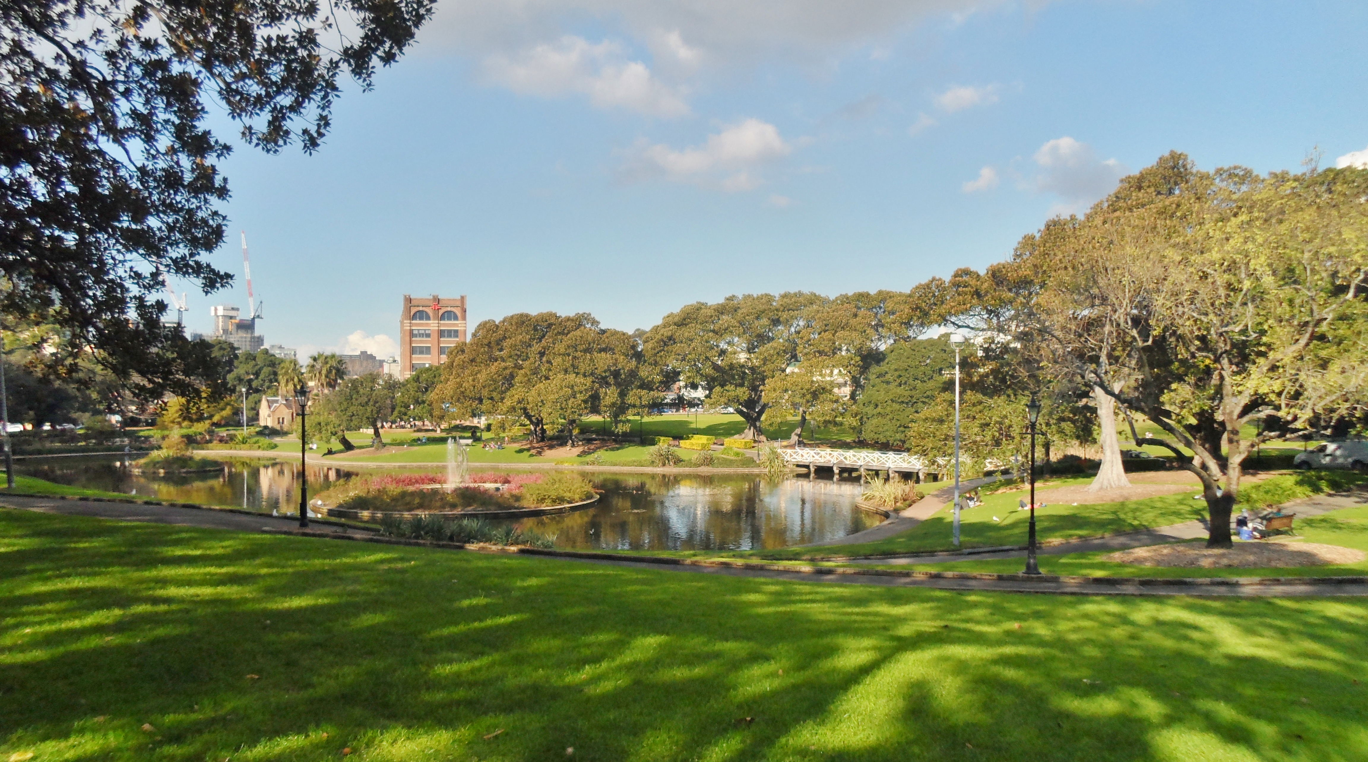 The University of Sydney Camperdown Campus grounds showing Lake Northam in 2013.